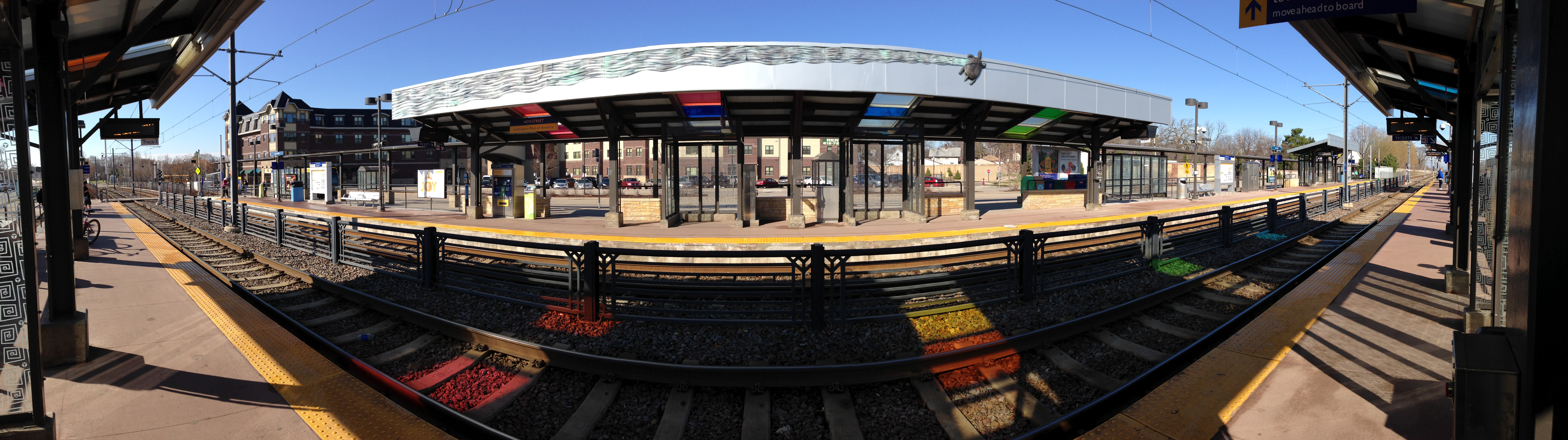 Panorama of 46th Street light rail train southbound platform with turtle art and colored ceiling panels. Metro Blue Line.